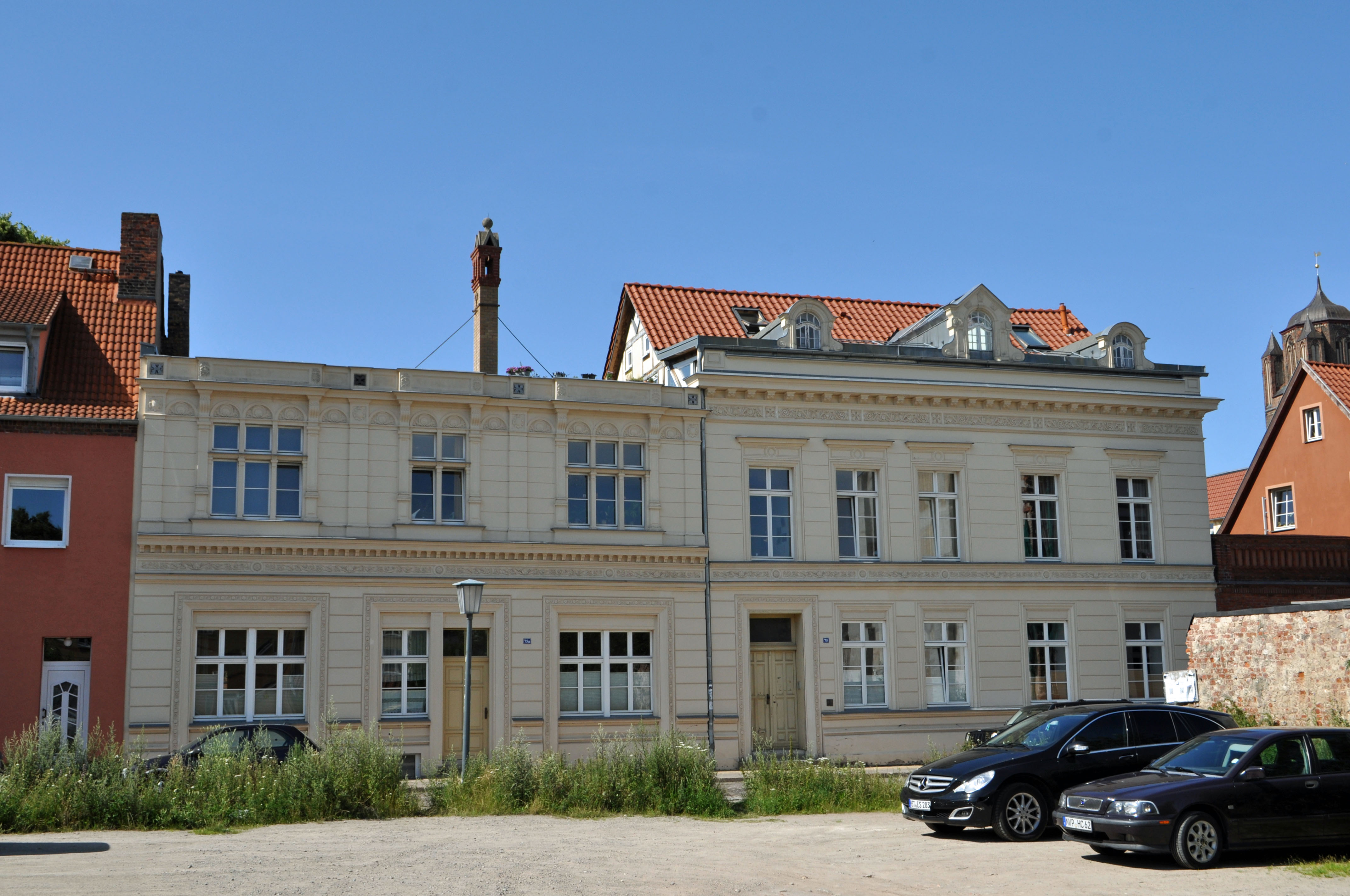 Stralsund, Frankenstraße 75 This is a photograph of an architectural monument.